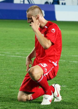 Bulgarian defender Ivan Ivanov celebrating after CSKA Sofia won UEFA Cup game